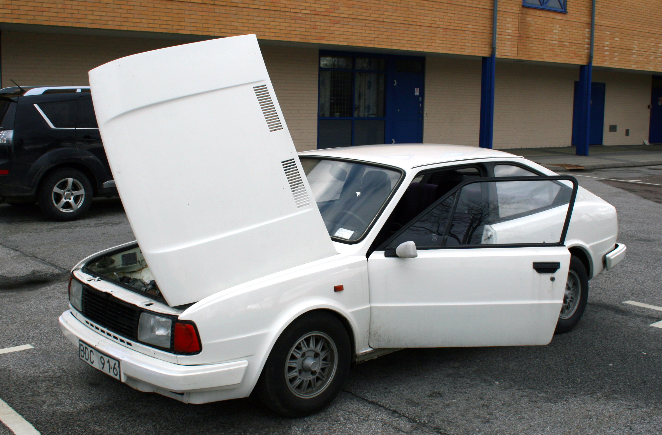 1985 Skoda Rapid 130